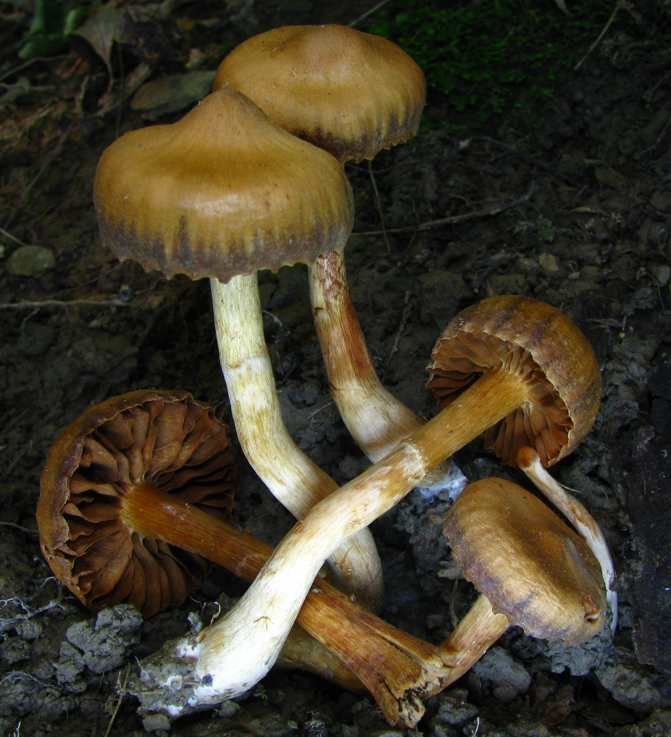 Cortinarius distans Location: Wayne National Forest, Athens Co., Ohio, USA For more information about this, see the observation page at Mushroom Observer.